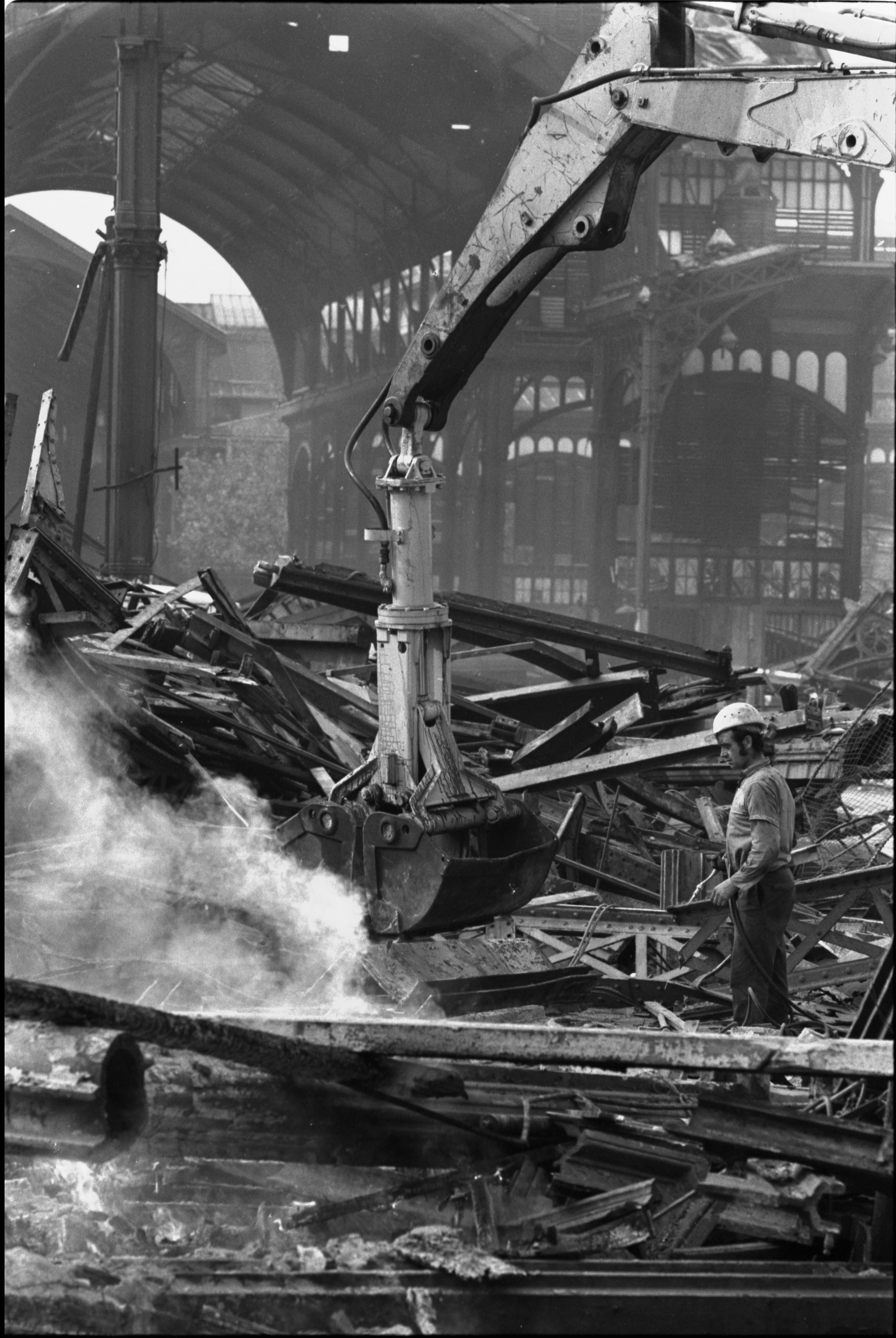 An area of Les Halles being razed by workers.